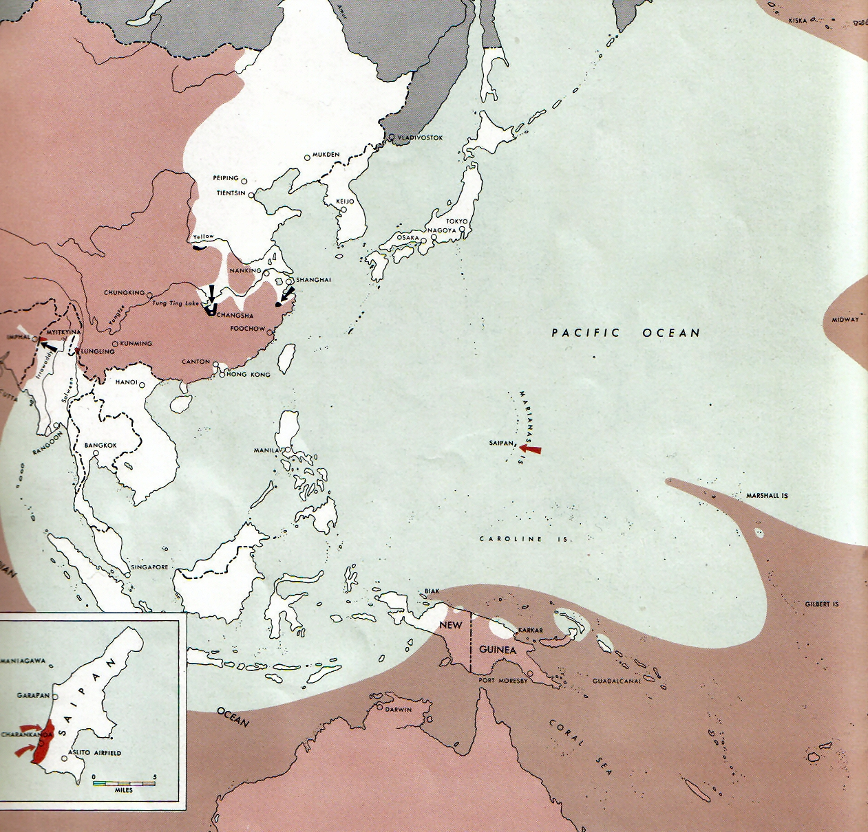 Map of the front against Japan as of 15 July 1944: This map is taken from the source "Atlas of the World Battle Fronts in Semimonthly Phases to August 15th 1945: Supplement to The Biennial report of The Chief of Staff of the United States Army July 1, 1943 to June 30 1945 To the Secretary of War". (See Cover, Forward and Map details)